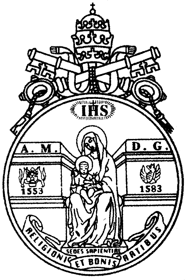 Modified to have background transparency and be a .png from Image:Estemma UniGreg .gif. That image was released under the following licenses